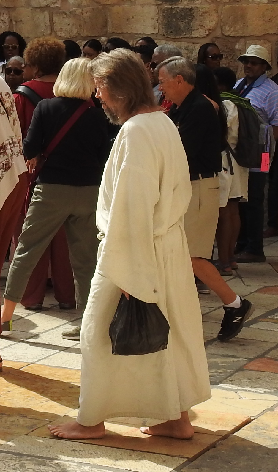 A barefoot man with Jerusalem Syndrome